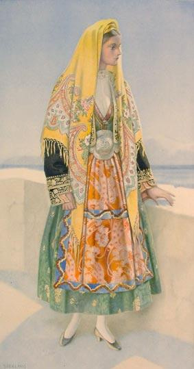 Greek Macedonian Peasant Woman's Dress (Macedonia, Thasos) - Greek Costume Collection by NICOLAS SPERLING (Russia 1881-1940 / act: Athens).